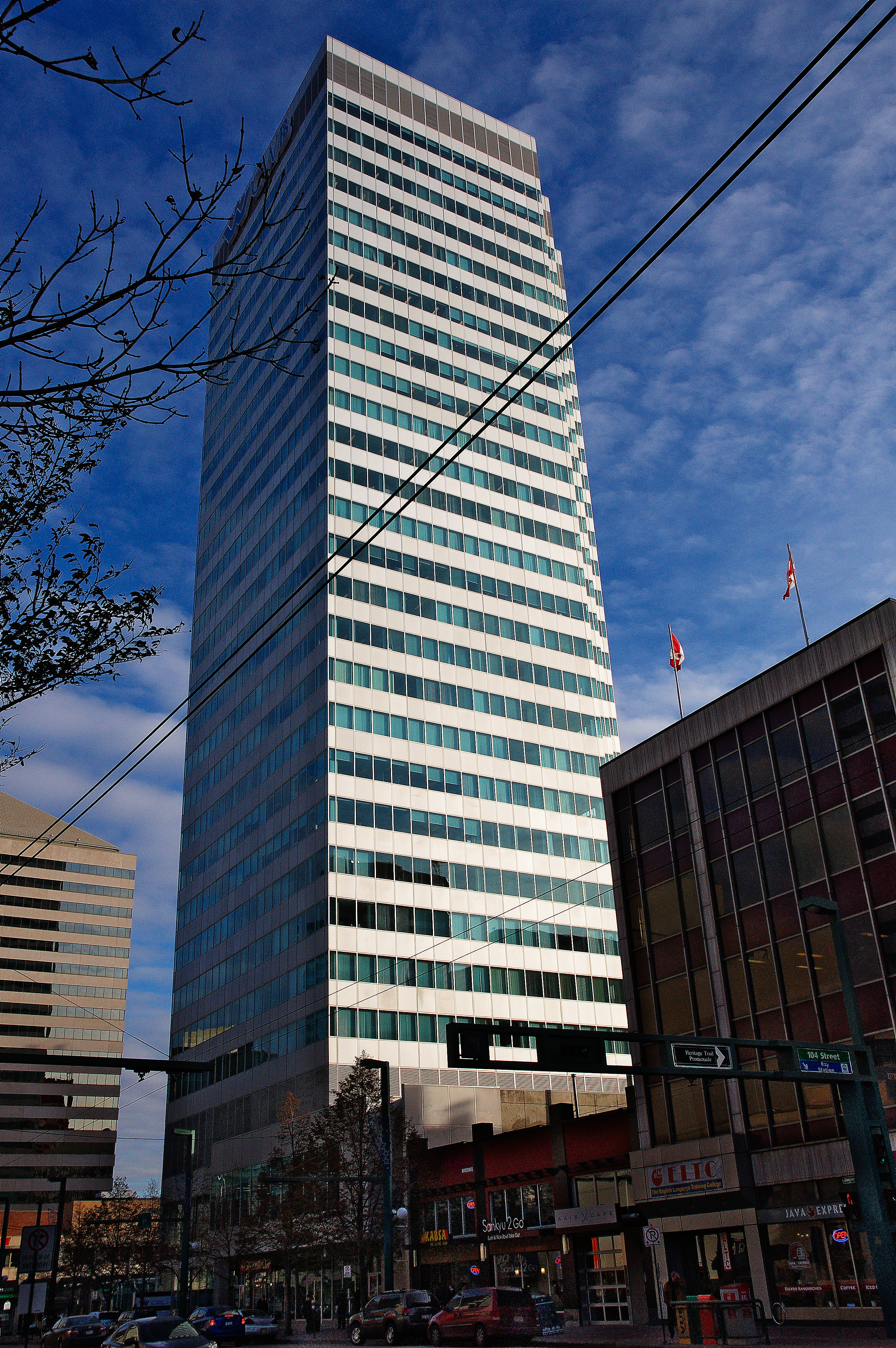 Canadian Western Bank (CWB) in Edmonton, Alberta, Canada.